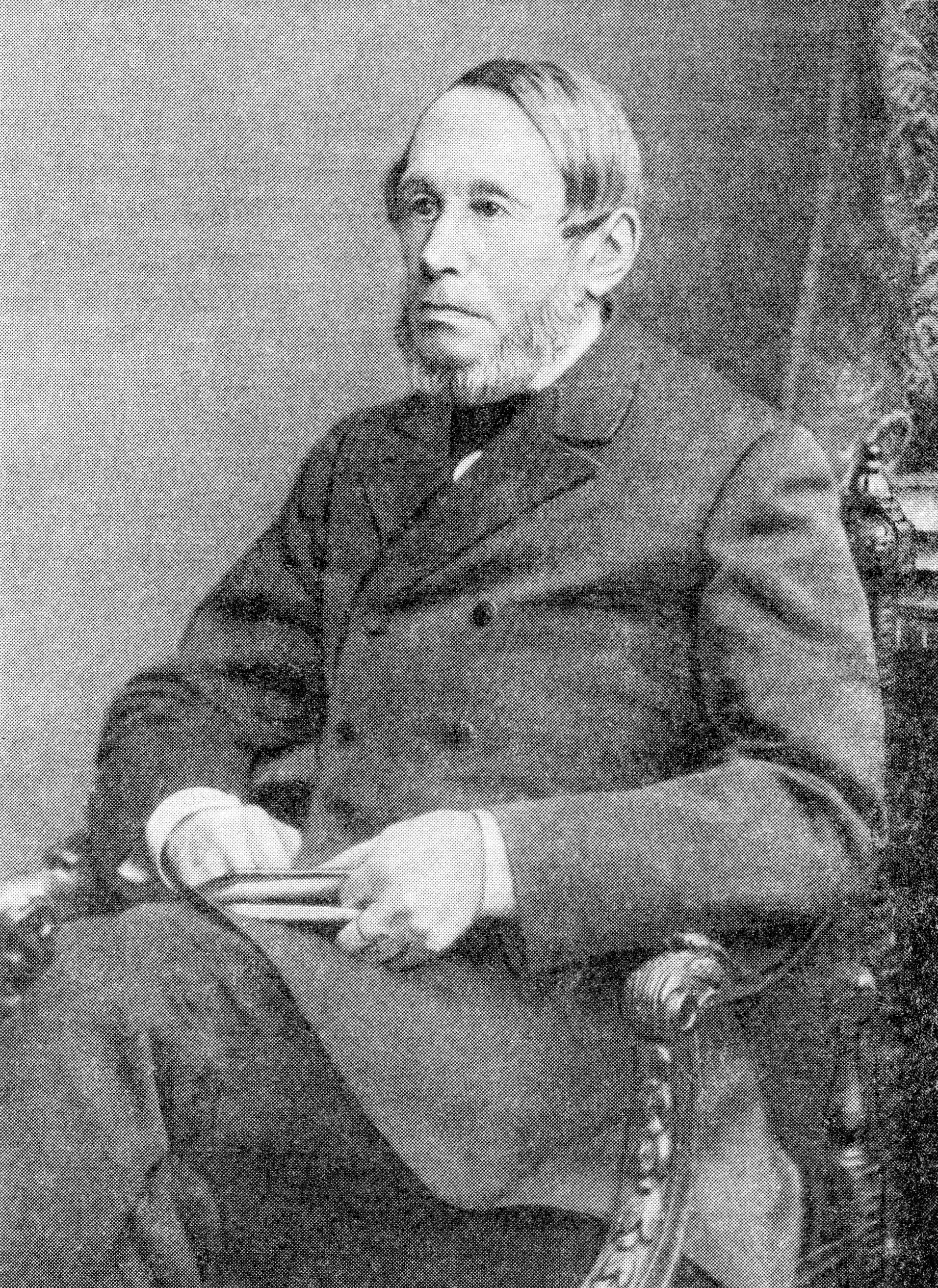 Russian philoloist, academician Y. K. Grot